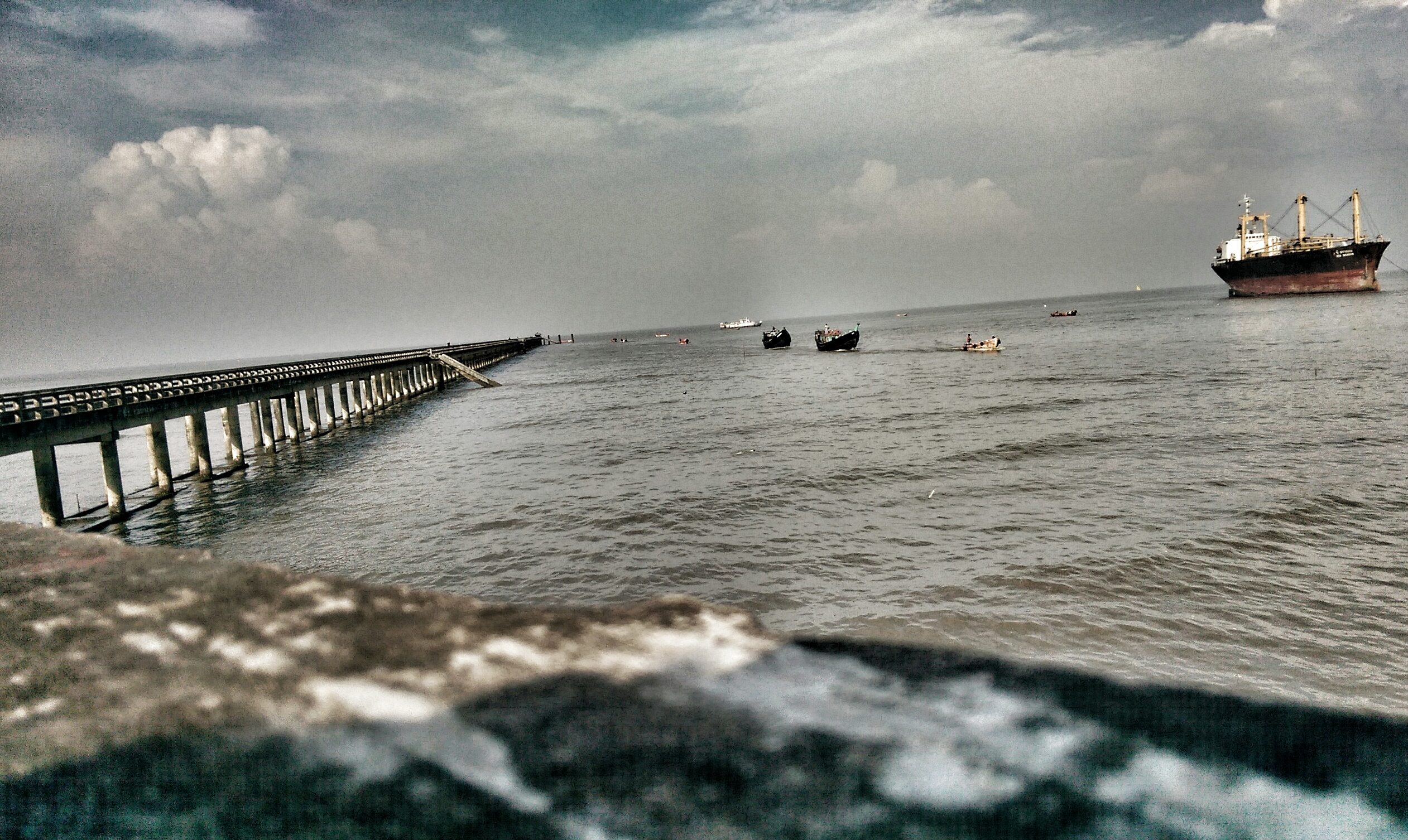 A beautiful Scene from Sandwip Feri Ghat.